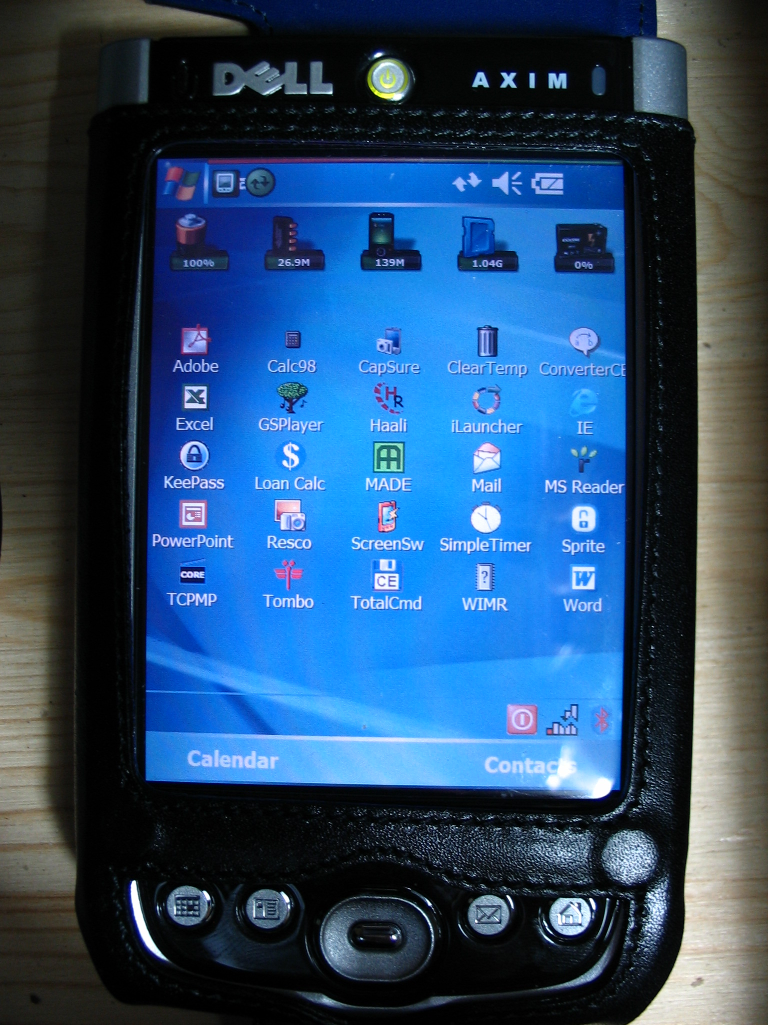 Dell Axim X50v